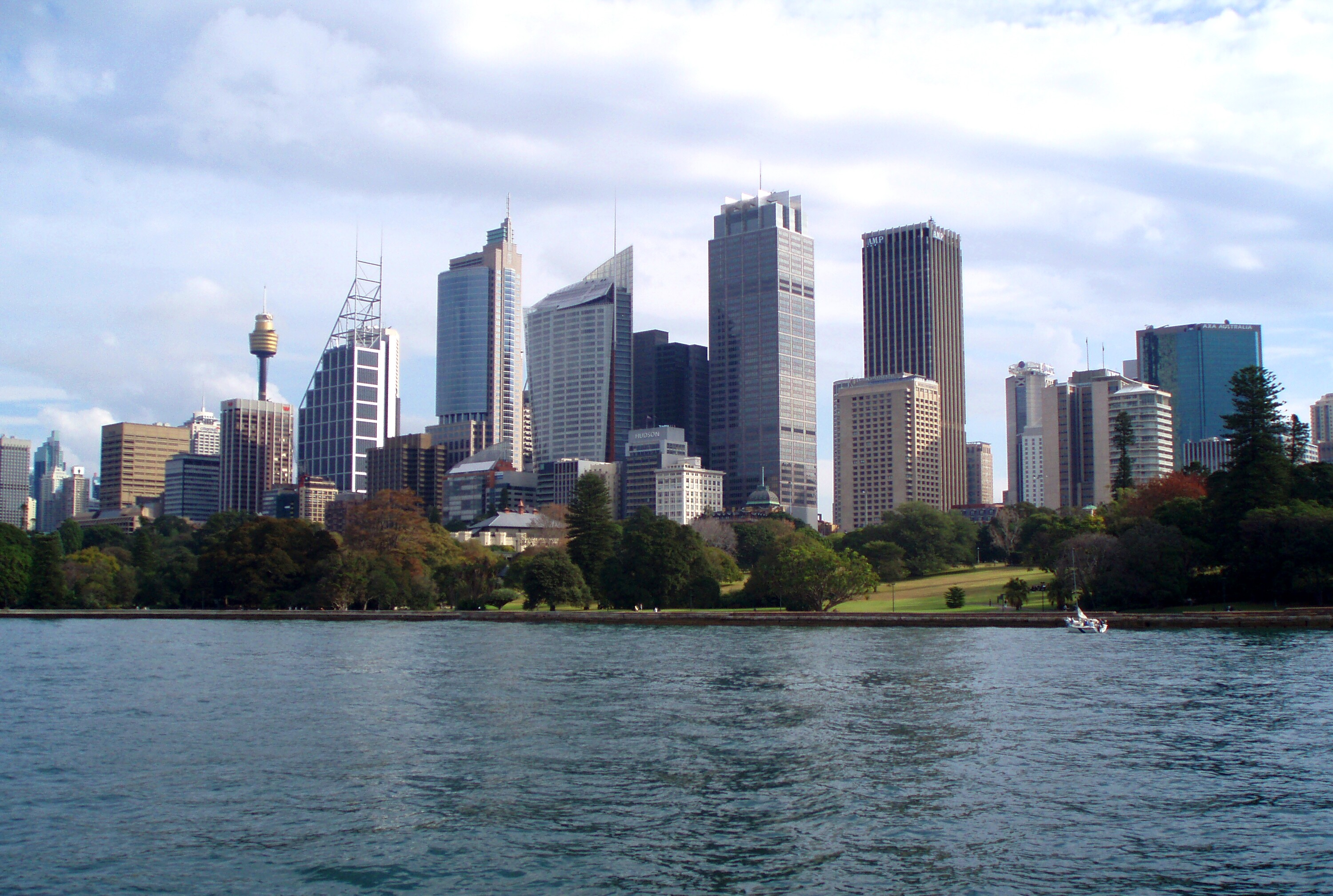 Photo taken from a boat in Farm Cove of Sydney Harbour.